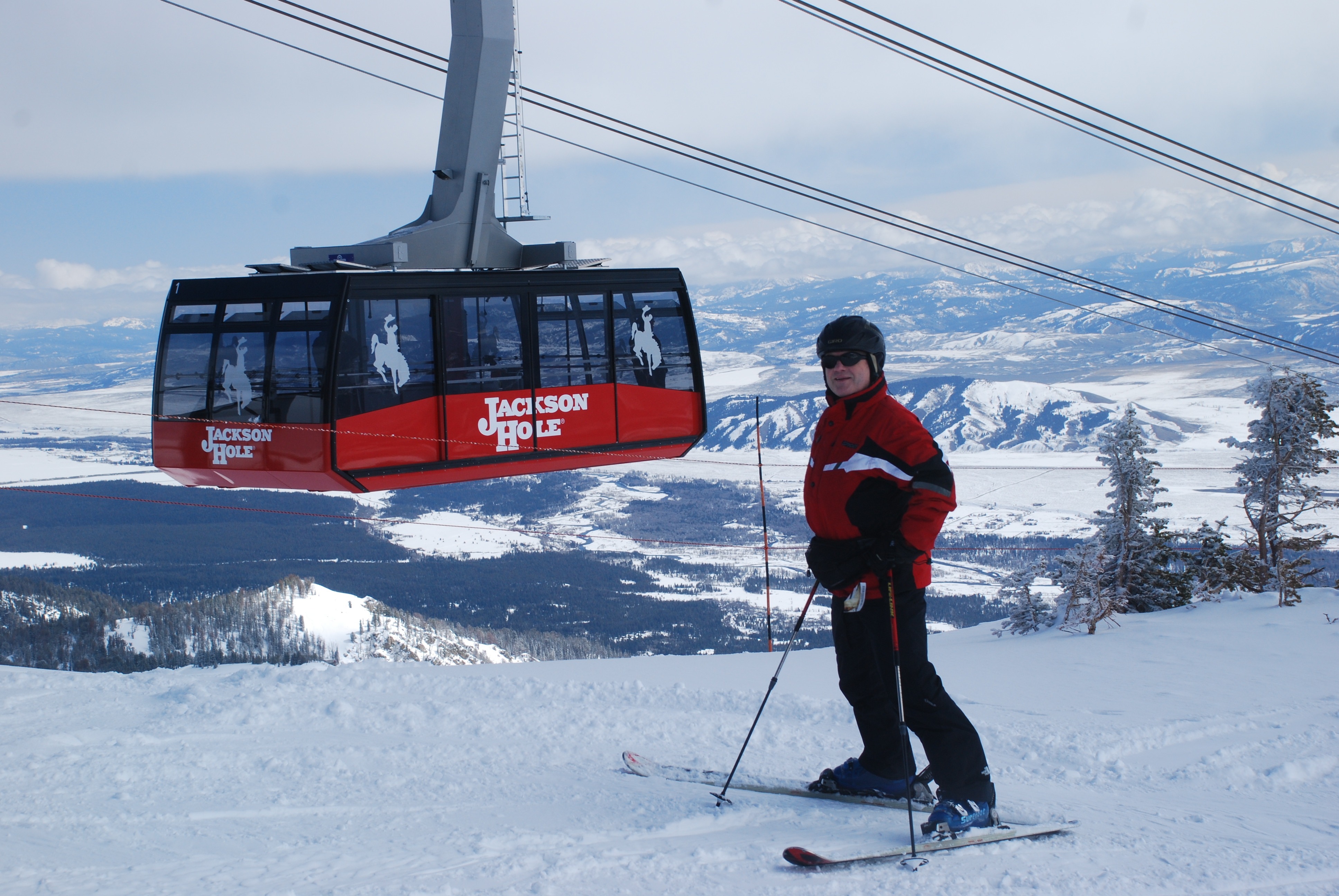 Jackson Hole new tram simce 2008